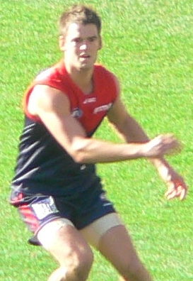 Jared Rivers playing for Melbourne during the 2007 AFL Season